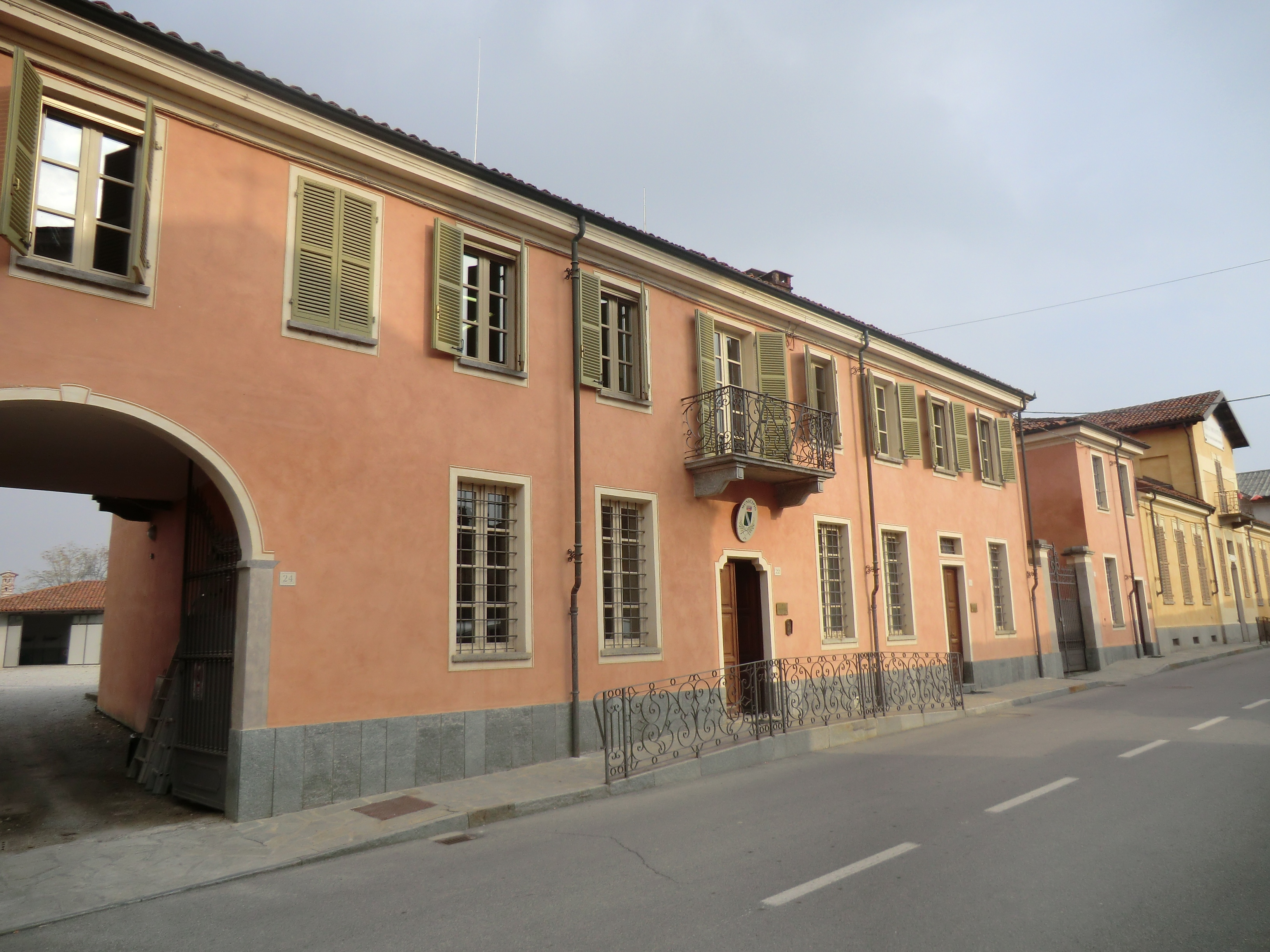 Ruffia (Cuneo - Italy): city all